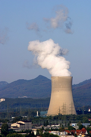 The cooling tower of the Gösgen Nuclear Power Plant seen from Niedergösgen.